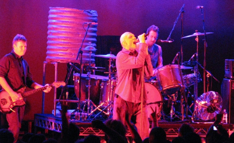 The Australian rock band Midnight Oil in concert at the Royal theatre, Canberra, 2009